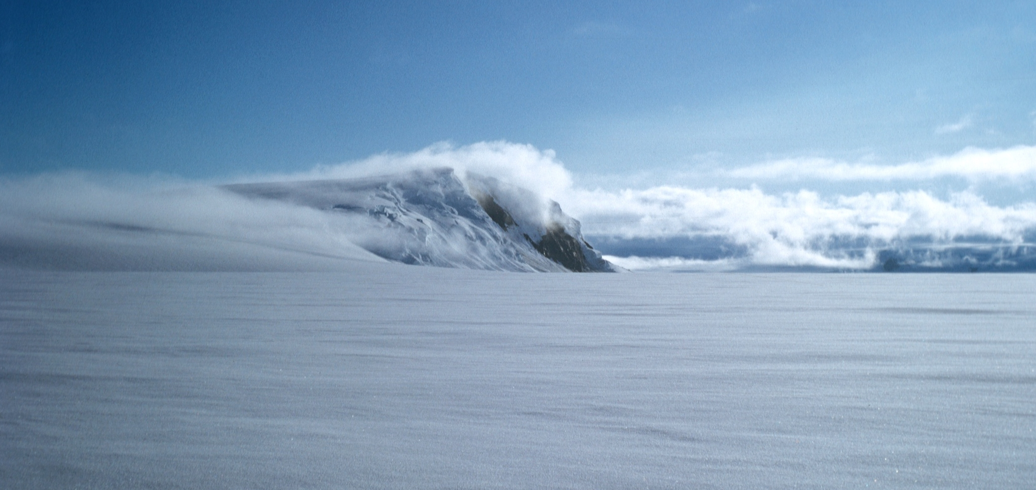 Grimsvötn in Vatna Jökull glacier in Iceland on 29 Jul 1972. Picture taken and uploaded by Roger McLassus.